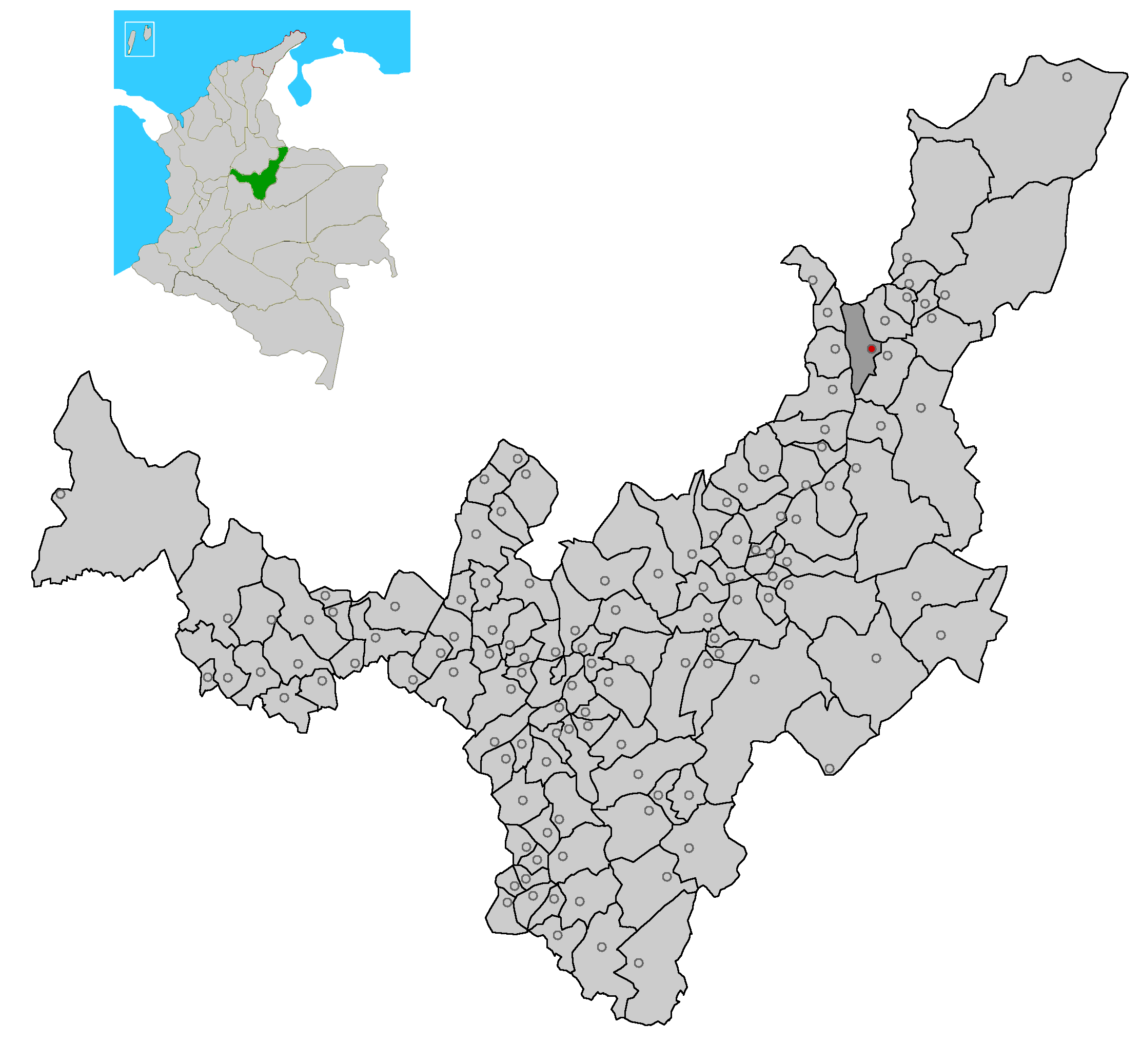 Image depicting map location of the town and municipality of Boavita in Boyaca Department, Colombia